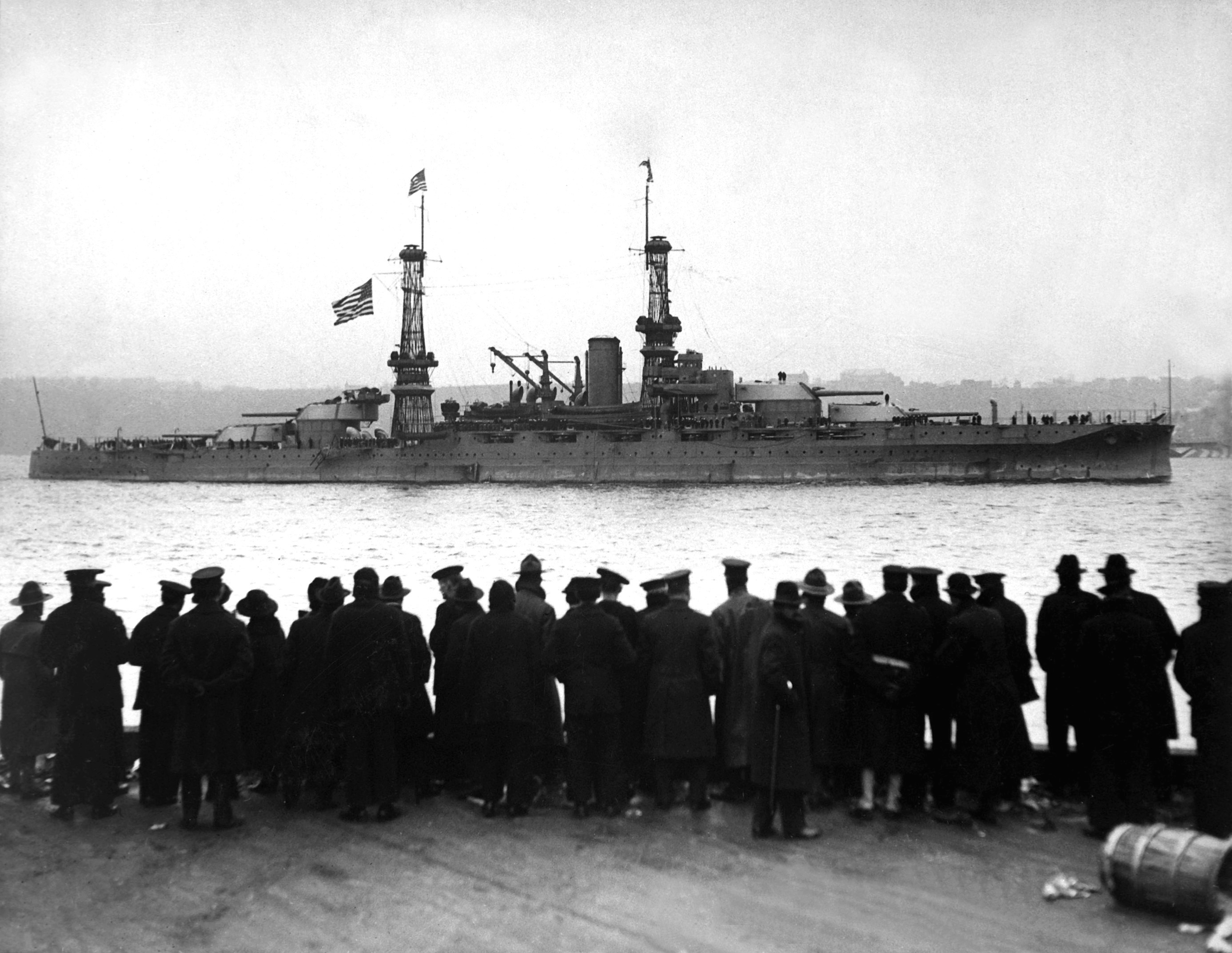 The leader Arizona passing 96th St. Pier in great naval review at N.Y. City. Ca. 1918. Paul Thompson. (War Dept.) Exact Date Shot Unknown NARA FILE #: 165-WW-334A-4A WAR & CONFLICT BOOK #: 477